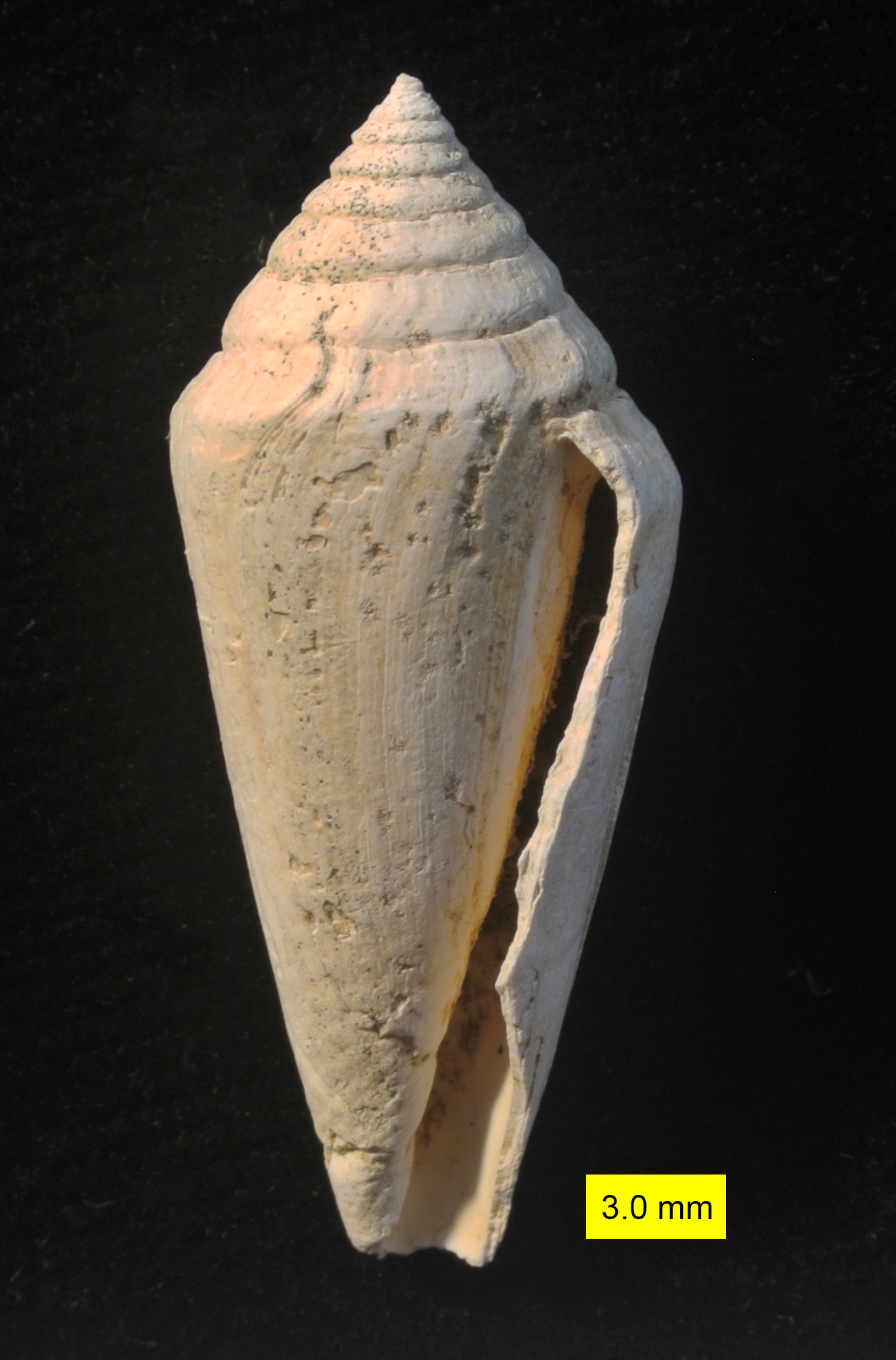 Conus pelagicus Brocchi 1814 from the Pliocene of Cyprus.